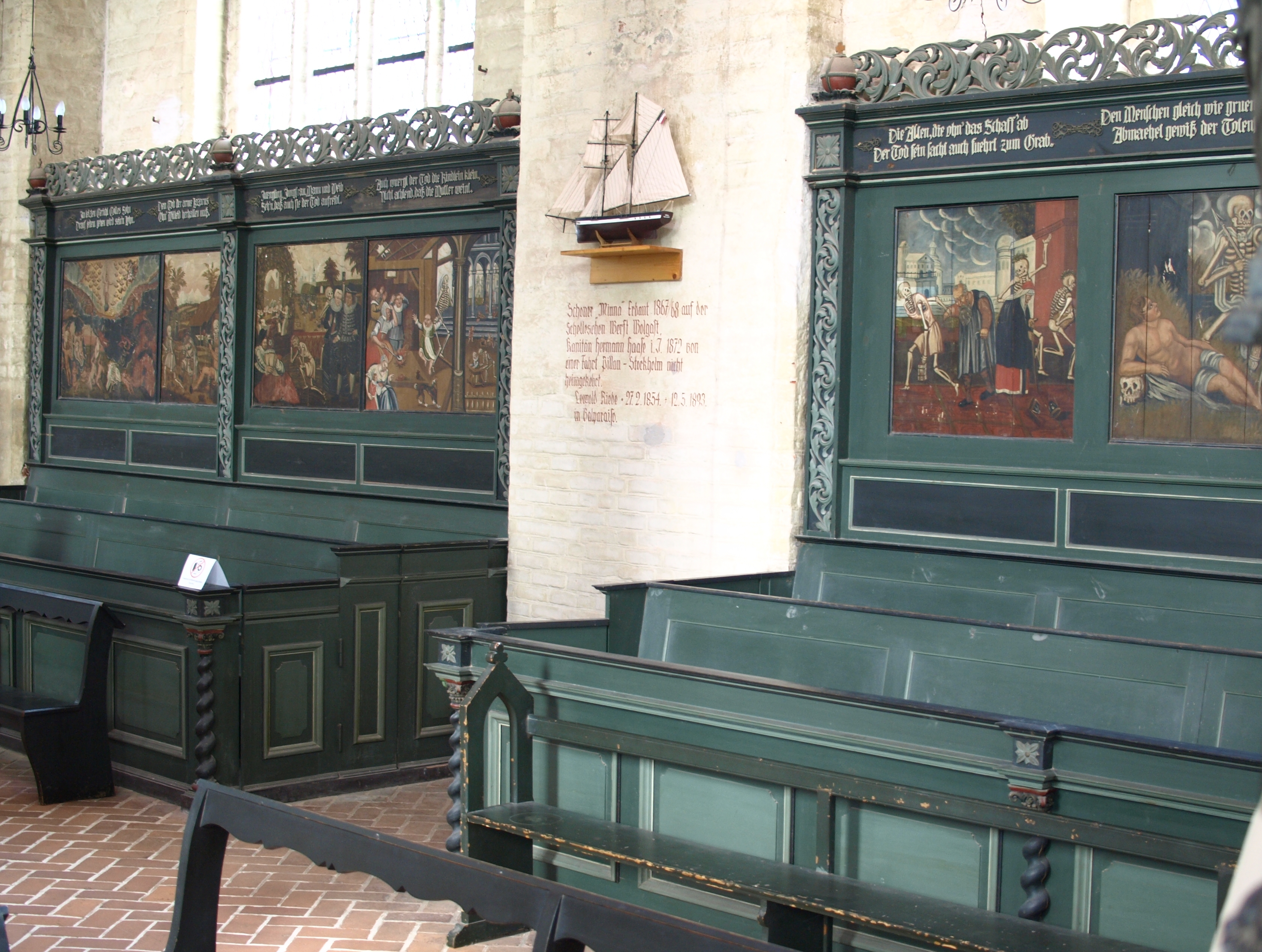 Interior view of St.-Petri Wolgast/ Usedom, Germany Paintings from Caspar Siegmund Köppe: "Der Totentanz" (um 1700)